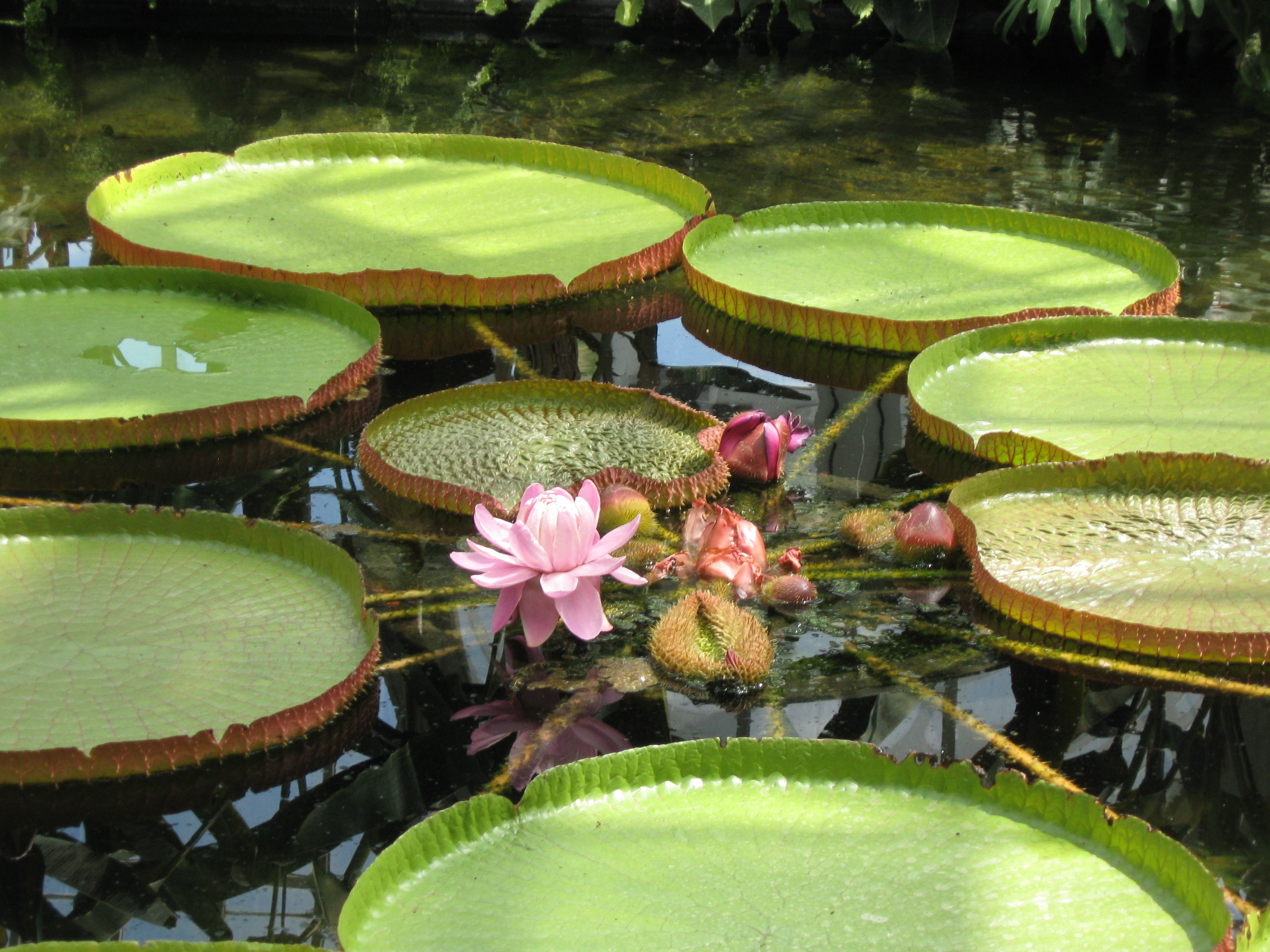 Victoria Lily (Victoria amazonica) in the Victoria Room at Phipps Conservatory, Pittsburgh